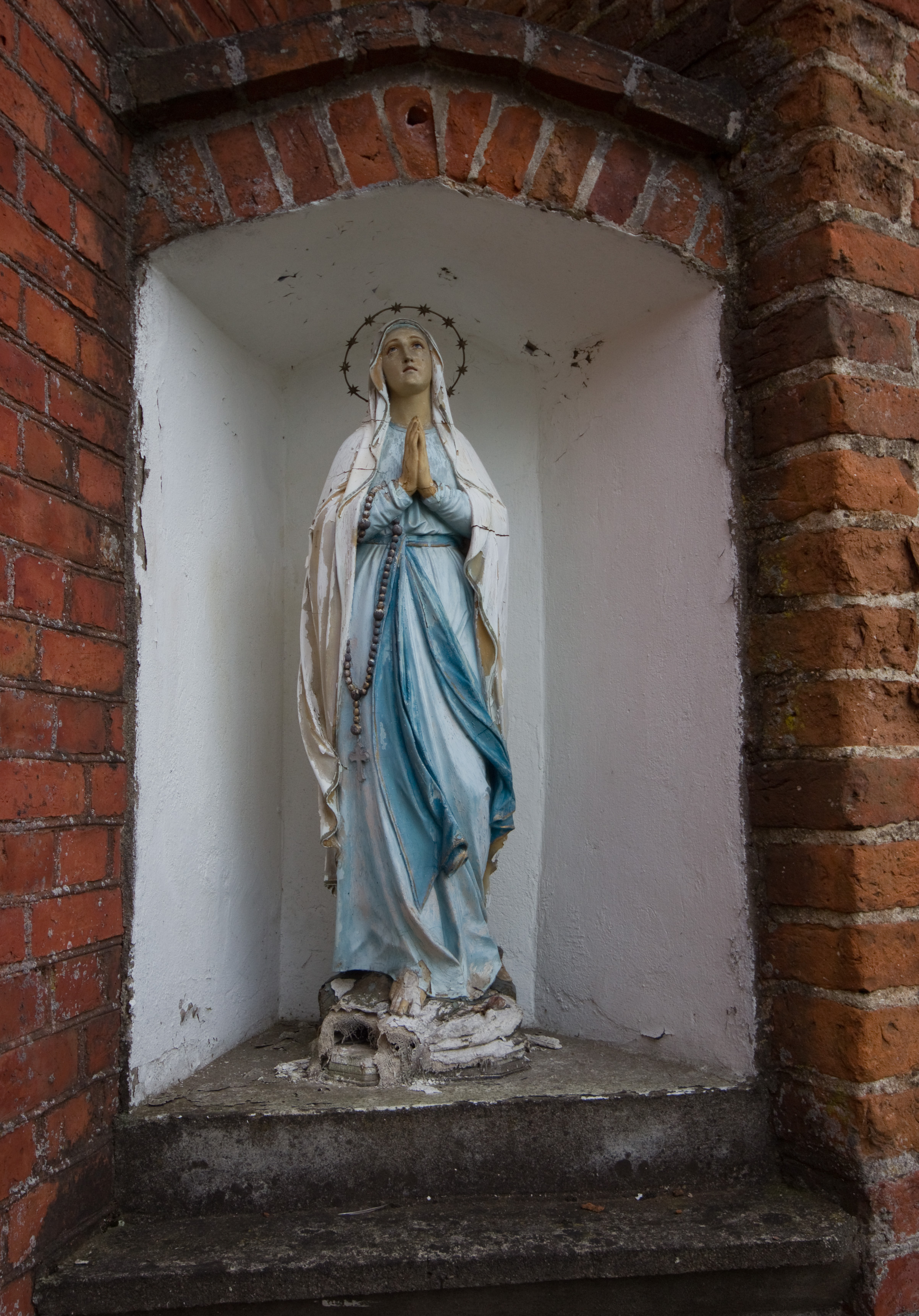 Church, Kolno, gmina Kolno, powiat olsztyński, Warmian-Masurian Voivodeship